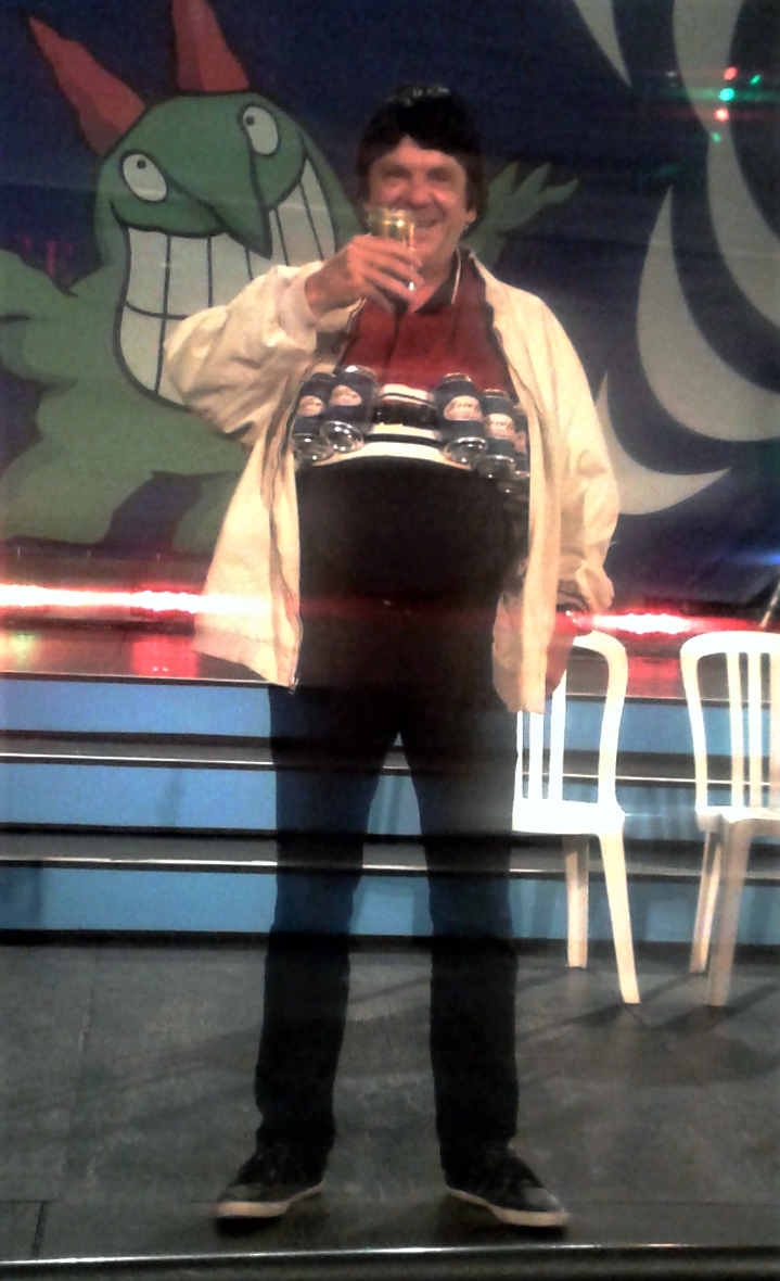 Jean-Claude Gélinas photographed in Montreal, Quebec, Canada at the Just For Laughs festival.